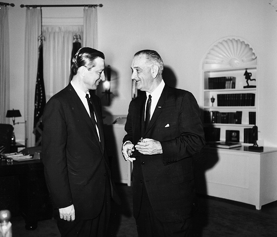 Congressman Ralph Hall with President Lyndon Johnson in the Oval Office.